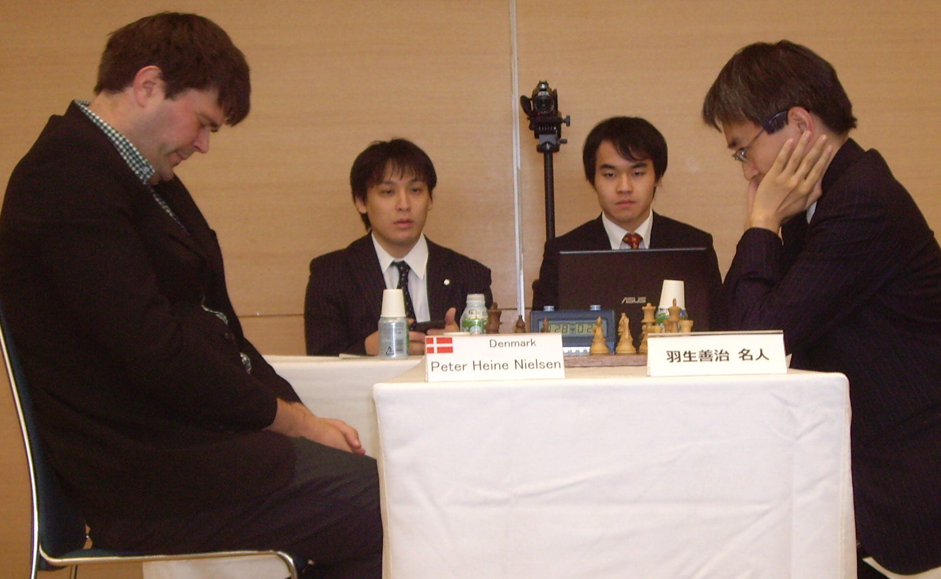 Playing chess during International Shogi Forum 2014